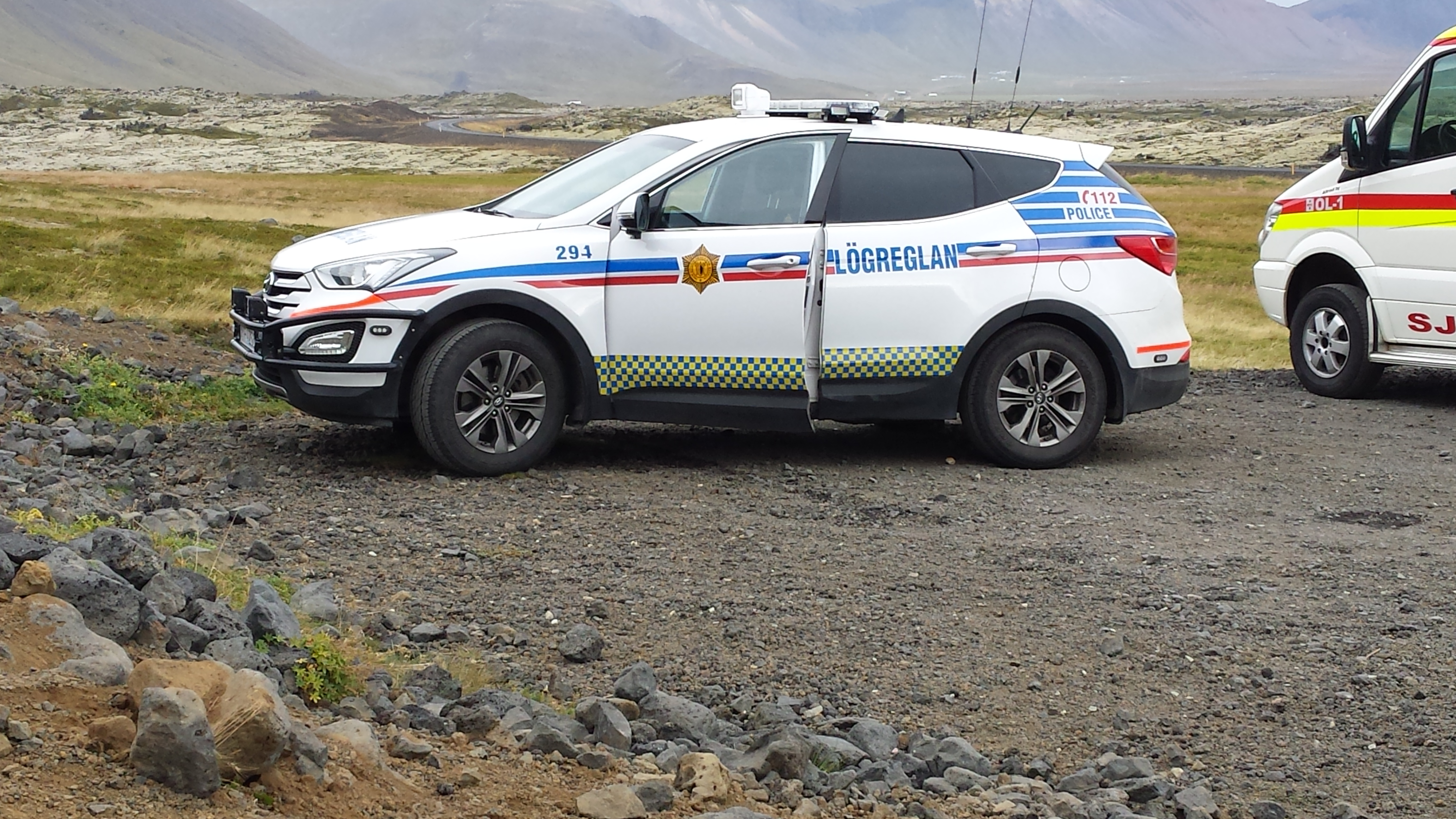 police car in Rauðfeldsgjá ravine in Iceland